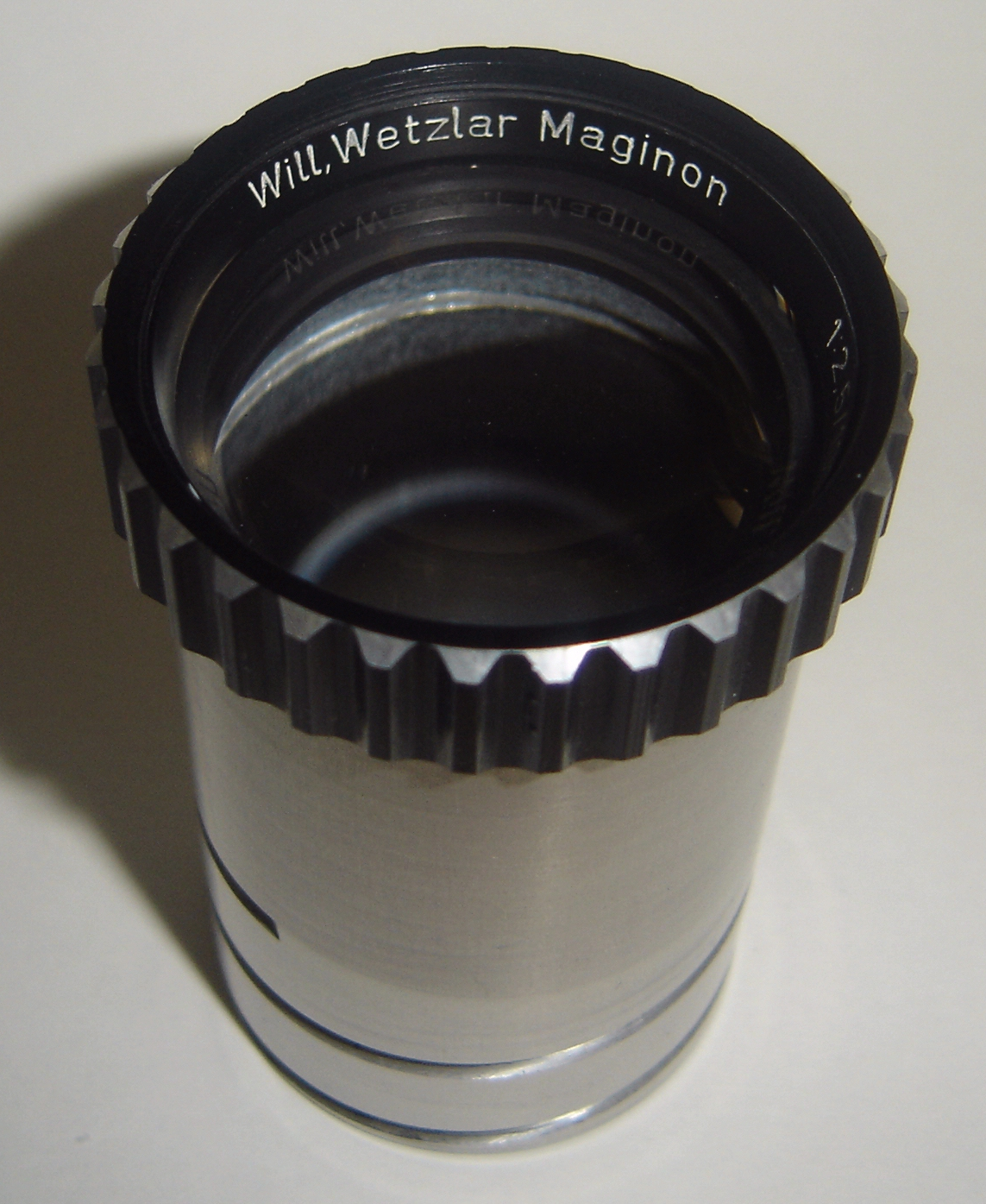 Projection objective from German optics company Wilhelm Will, Wetzlar, serial number 250082. Solid Aluminum; 42 mm tubus diameter. Aperture 1:2.8, focal length 100 mm, multi coated lenses. (full view)